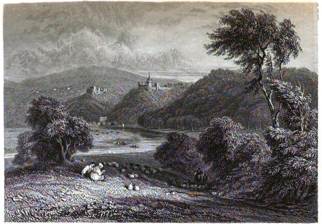 A Victorian depiction of Goodrich Court in Hertfordshire. Goodrich Castle can be seen in the background.